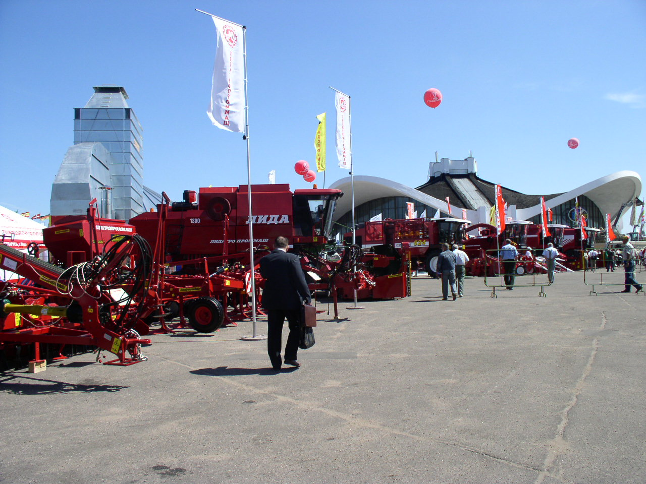 Lidagroprommash Lida-1300 combine harvester and other Lidagroprommash machinery. Agriculture Expo in Minsk, Belarus.